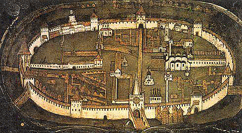 Fragment Mihaylovskaya icon (Novgorod), 17th-century. Kremlin (Detinets in Novgorod) is expressed On fragment.